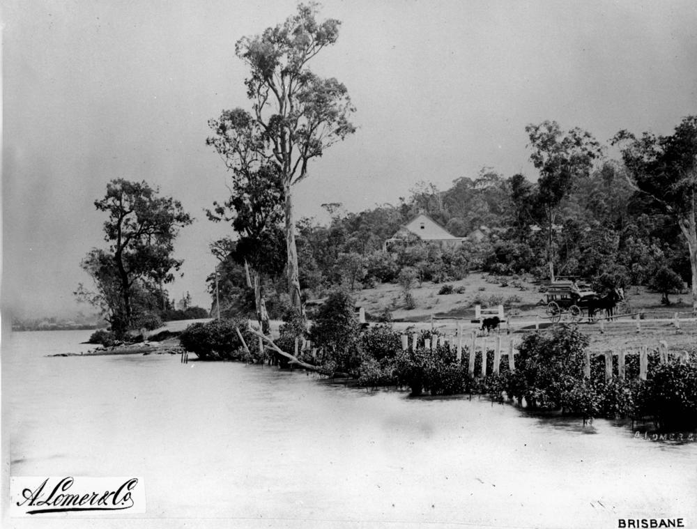 Carriage travelling along Kingsford Smith Drive at Hamilton, ca. 1889. Image shows a carriage travelling along Kingsford Smith Drive (originally named Hamilton Road). This was the main route through Hamilton. It was built in 1829-1830 by convict labour and connected Brisbane Town to the women's jail at Eagle Farm.